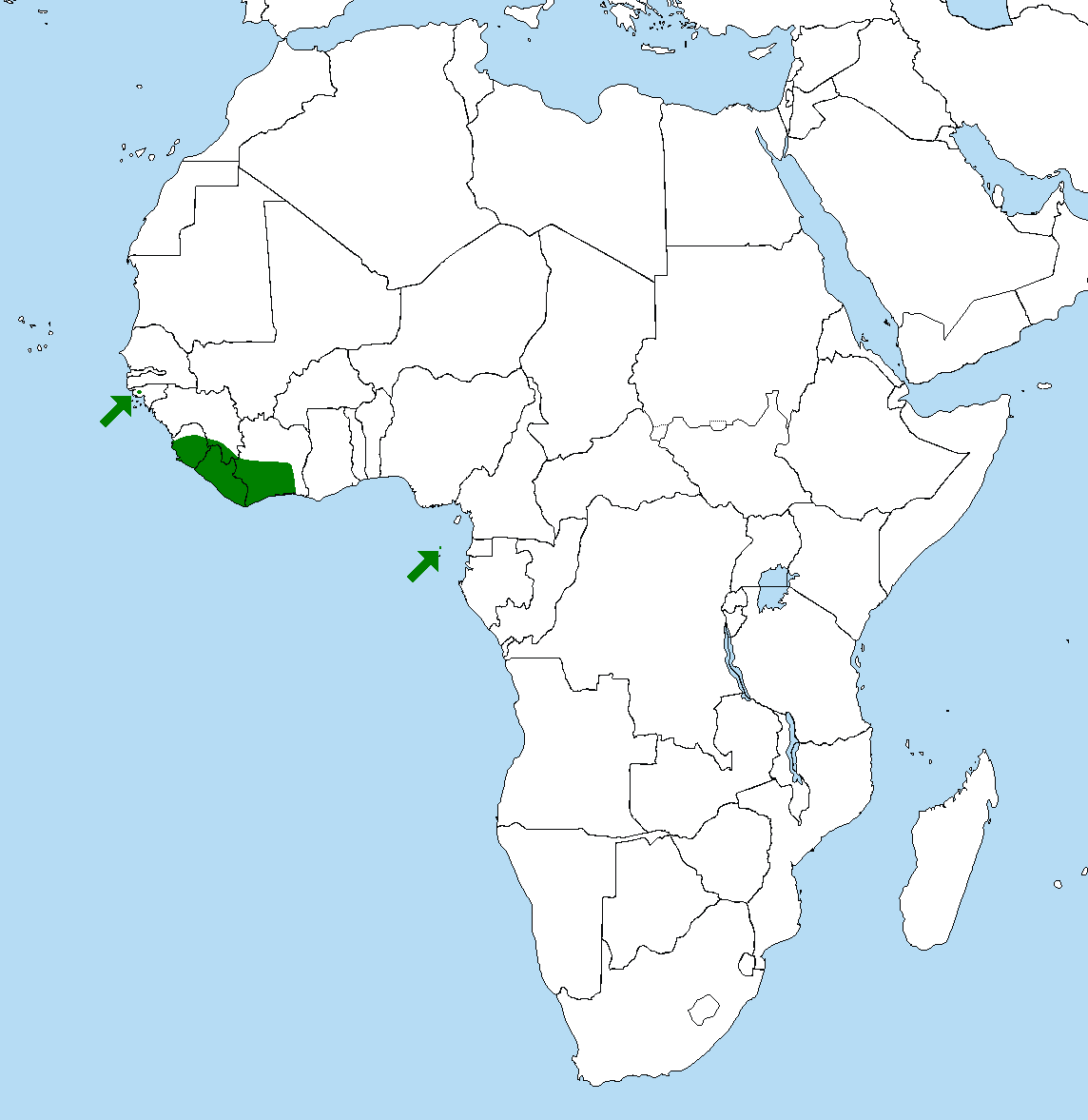 Distribution of Thimneh African grey